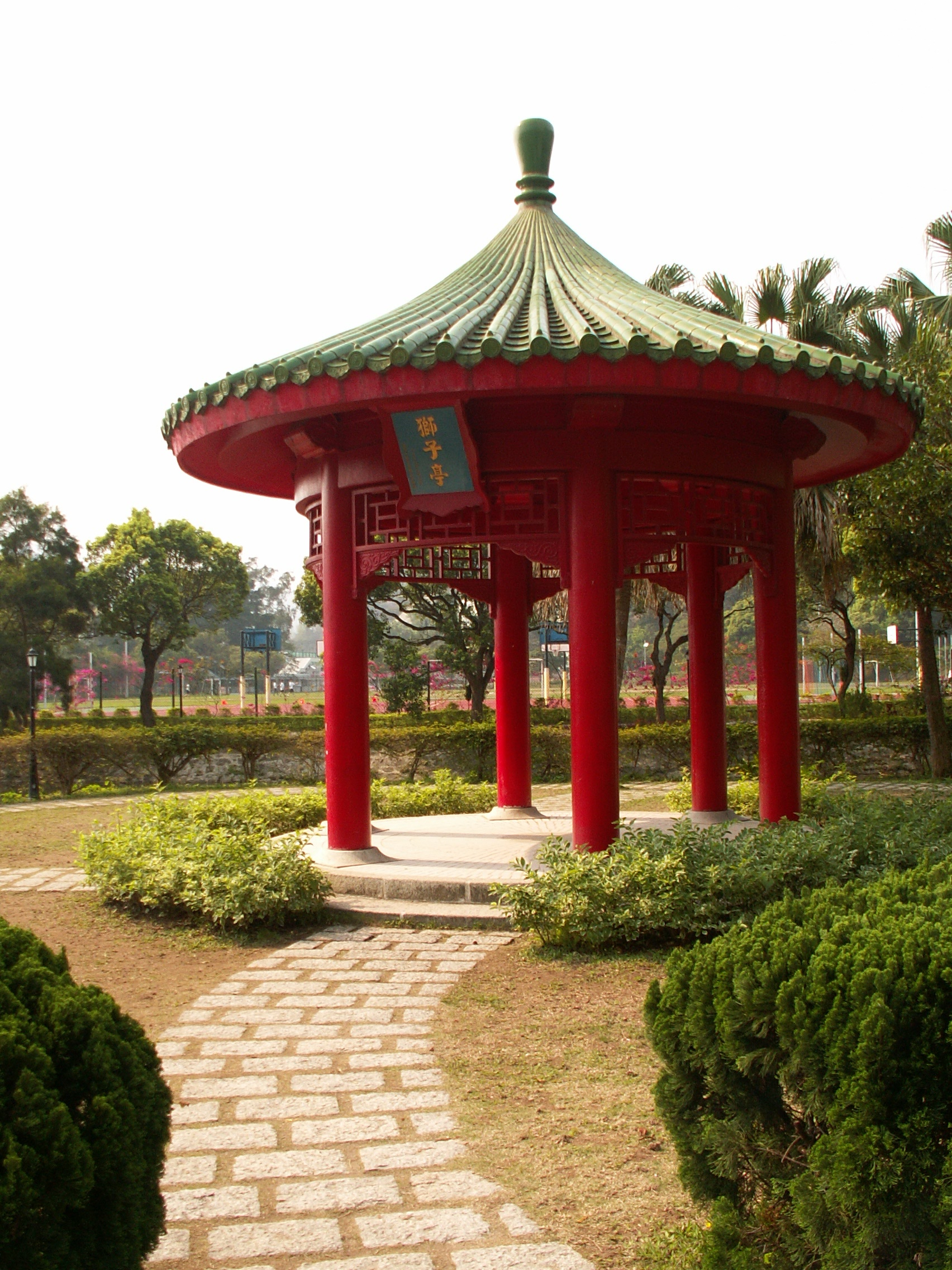 Photo of "Lion Pavilion" in the Chinese University of Hong Kong, taken by Lorenzarius on 29 March, 2006.